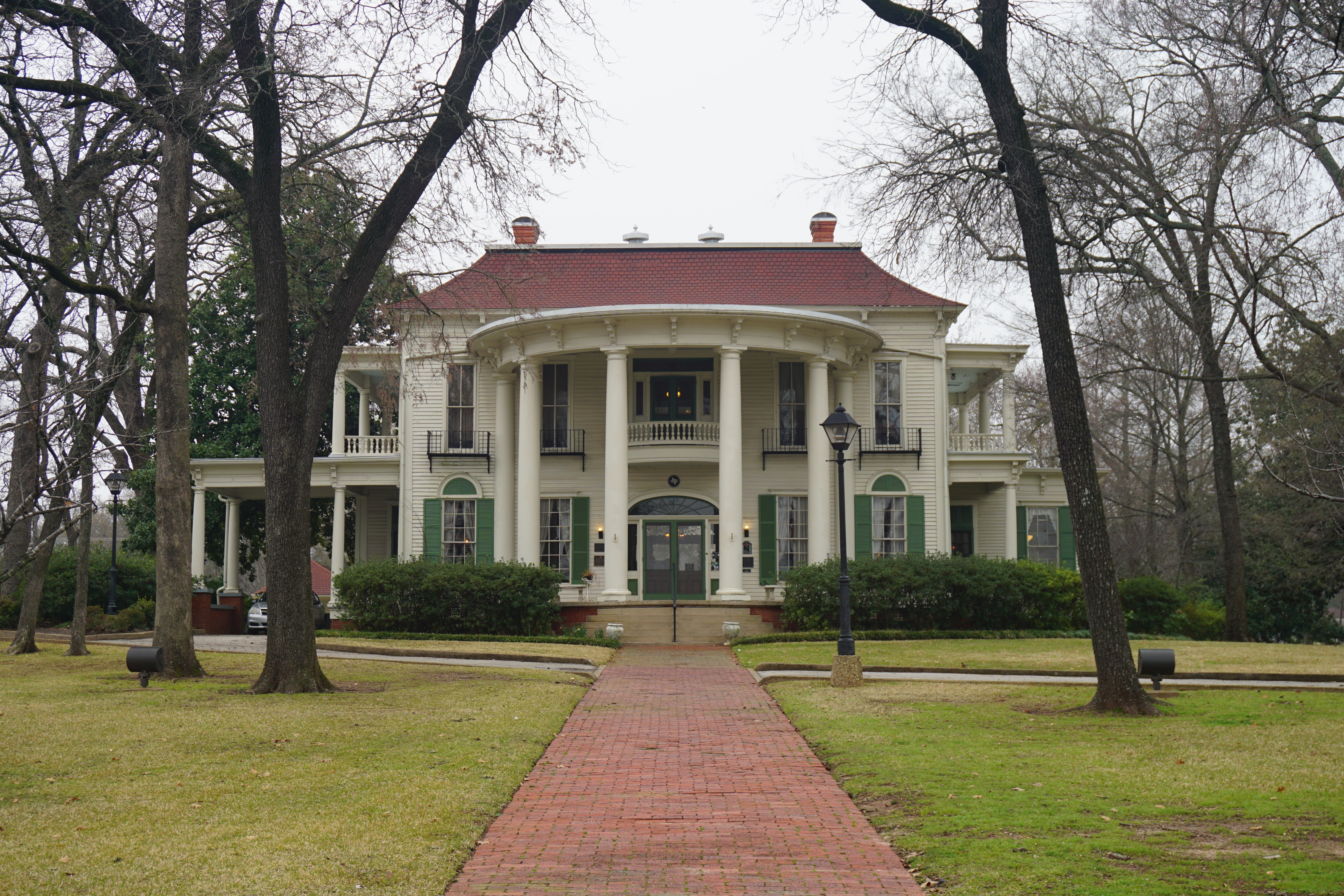 The exterior of the Goodman–LeGrand House in Tyler, Texas (United States).